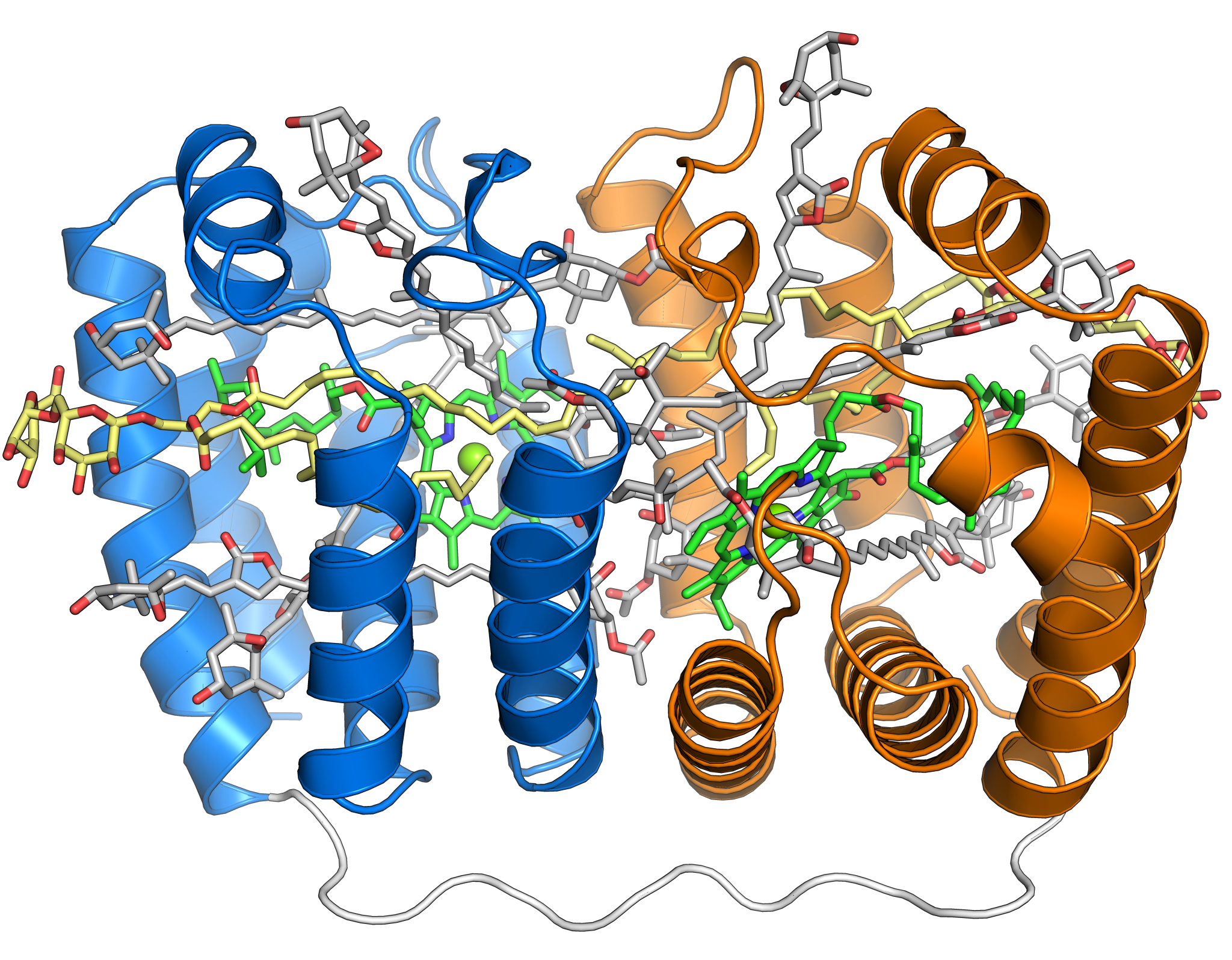 Crystal structure of the soluble peridinin-chlorophyll-protein complex from the photosynthetic dinoflagellate Amphidinium carterae. This complex is found in many photosynthetic dinoflagellates and involves a boat or cradle-shaped protein with two pseudosymmetrical repeats of eight alpha helices (shown in blue and orange) wrapped around a pigment-filled central cavity. Each eight-helix segment binds one chlorophyll molecule (green, with central magnesium ion shown as a green sphere), one diacylglycerol molecule (yellow) and four peridinin molecules (gray). Rendered using PyMol from PDB ID 1PPR. Hofmann E, Wrench PM, Sharples FP, Hiller RG, Welte W, Diederichs K. Structural basis of light harvesting by carotenoids: peridinin-chlorophyll-protein from Amphidinium carterae. Science. 1996;272(5269):1788-91. DOI 10.1126/science.272.5269.1788.